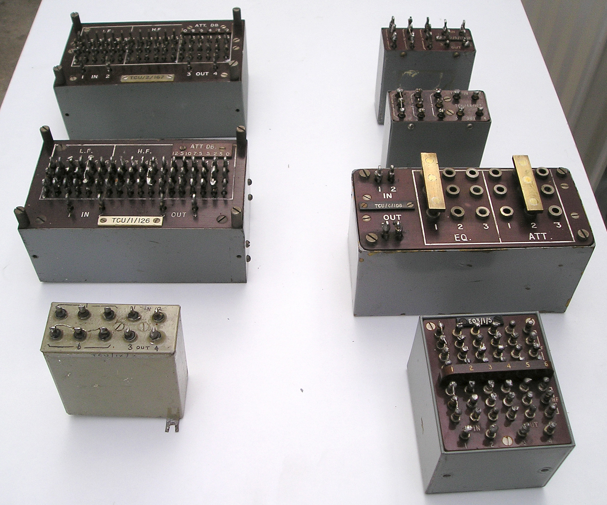 Various TCU equalisers, some presetable with plugable links and some with solder links.